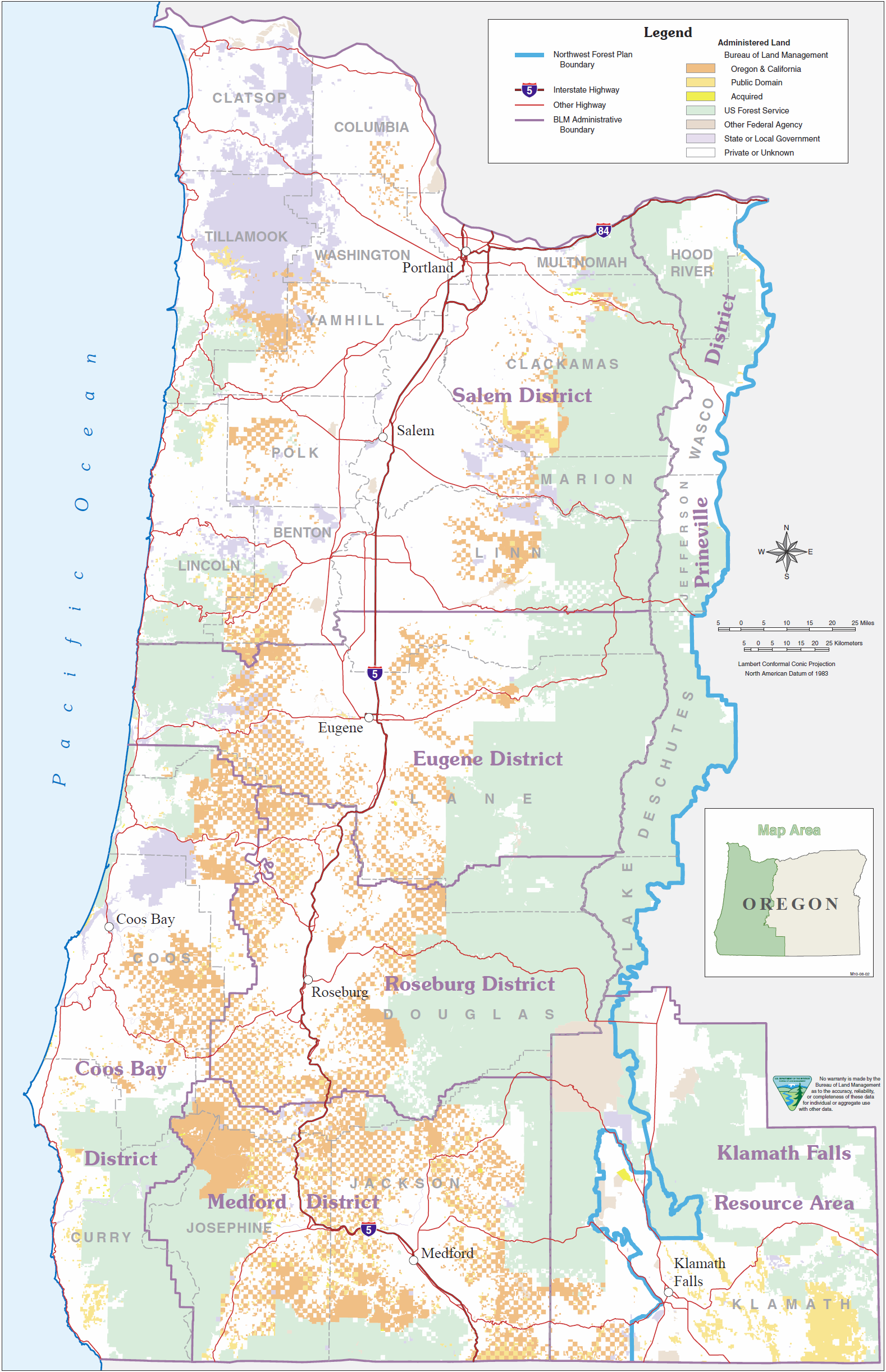 Map showing lands administered by the U.S. Bureau of Land Management in the western half of the state of Oregon.